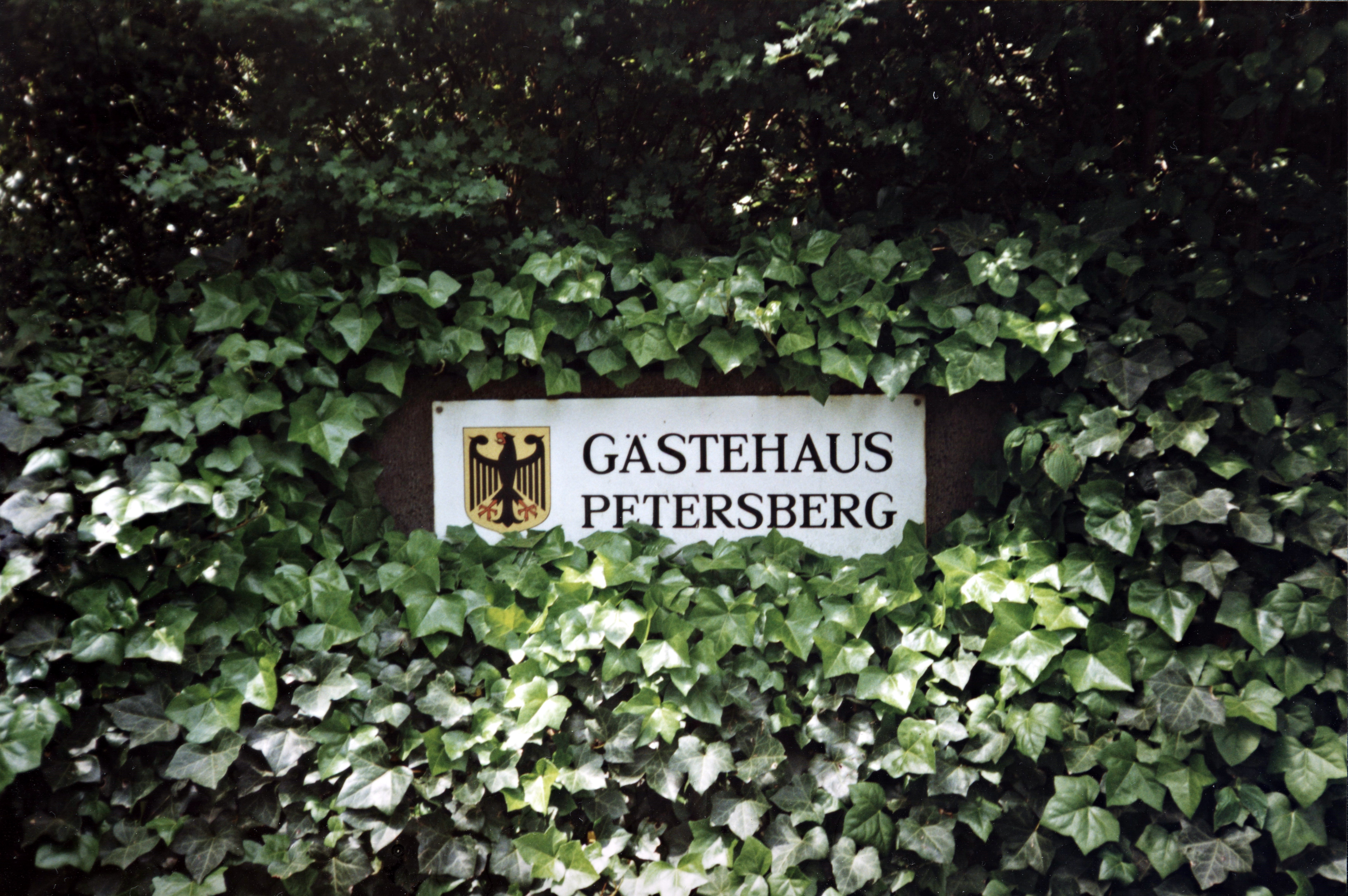 Nametable of the Federal guest house on Petersberg in Koenigswinter near Bonn, Germany.